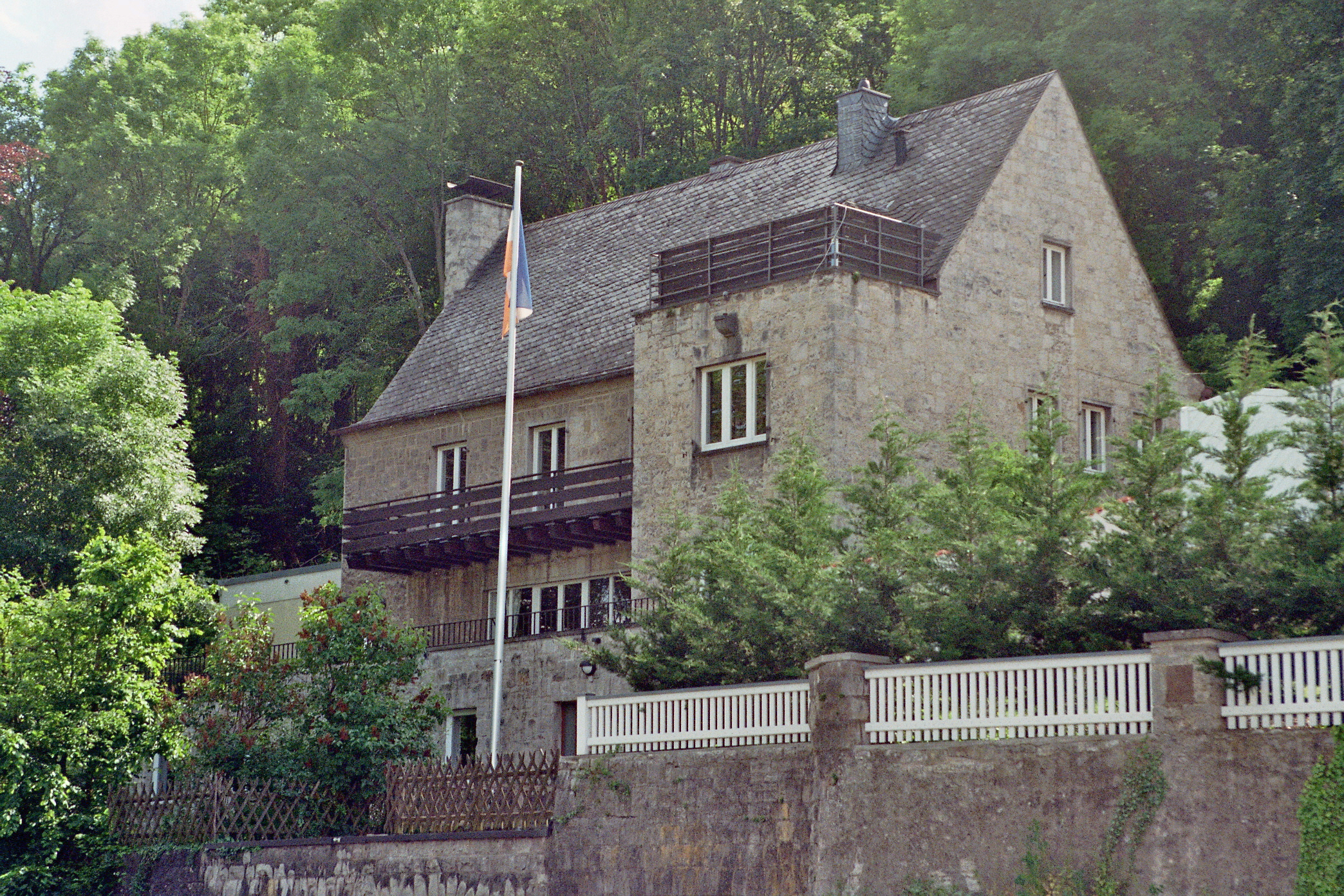 House of student fraternity "Corps Nassovia Würzburg" in Würzburg/Germany